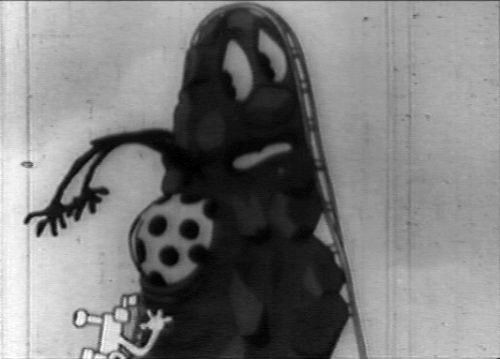 Scene from the 1930 cartoon Box Car Blues. Trying for traction, the train grabs onto the mountain. The side of the mountain rips and exposes the mountain's spotted underpants. The mountain tries to cover the pants.